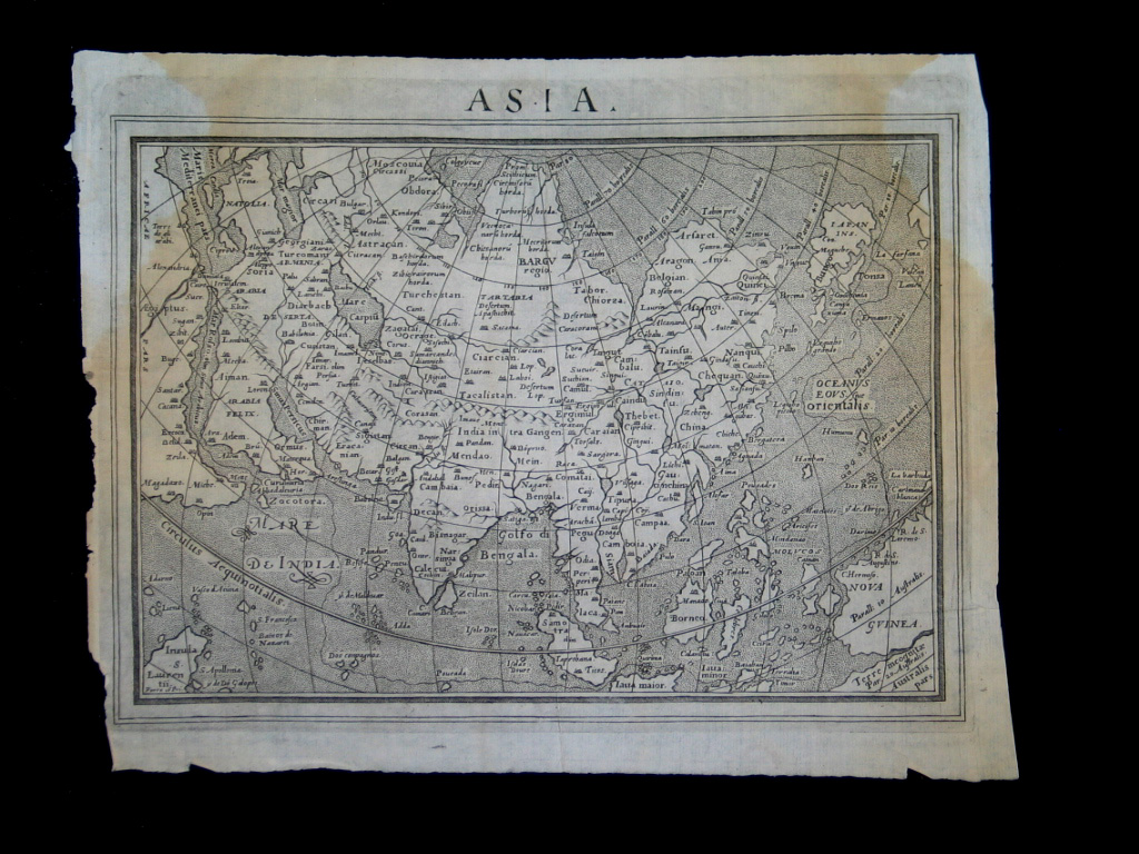 "Asia," from 'Relazioni Universali', by *Giovanni Botero* (1544-1617), c.1591-98 and later editions; *the whole map*; also: "Africa, c.1590"; *the whole map* "Europe, c.1590"; *the whole map* "North and South America, c.1590"; *the whole map* "Asia," by Giovanni Botero, an edition from 1659: *the whole map*; *northwest*; *northeast*; *southwest* (shown above); *southeast*; *Central Asia*; also: Africa, 1659*: *northwest*; *northeast*; *southwest*; *southeast* Europe, 1659*: *northwest*; *northeast*; *southwest*; *southeast* North and South America, 1659*: *northwest*; *northeast*; *southwest*; *southeast*